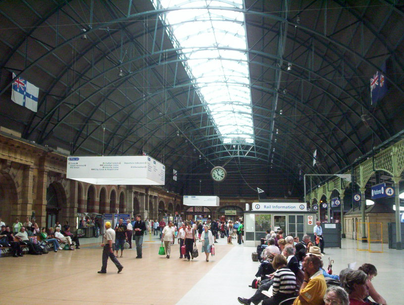 Inside central railway station, sydney. I took the photo.